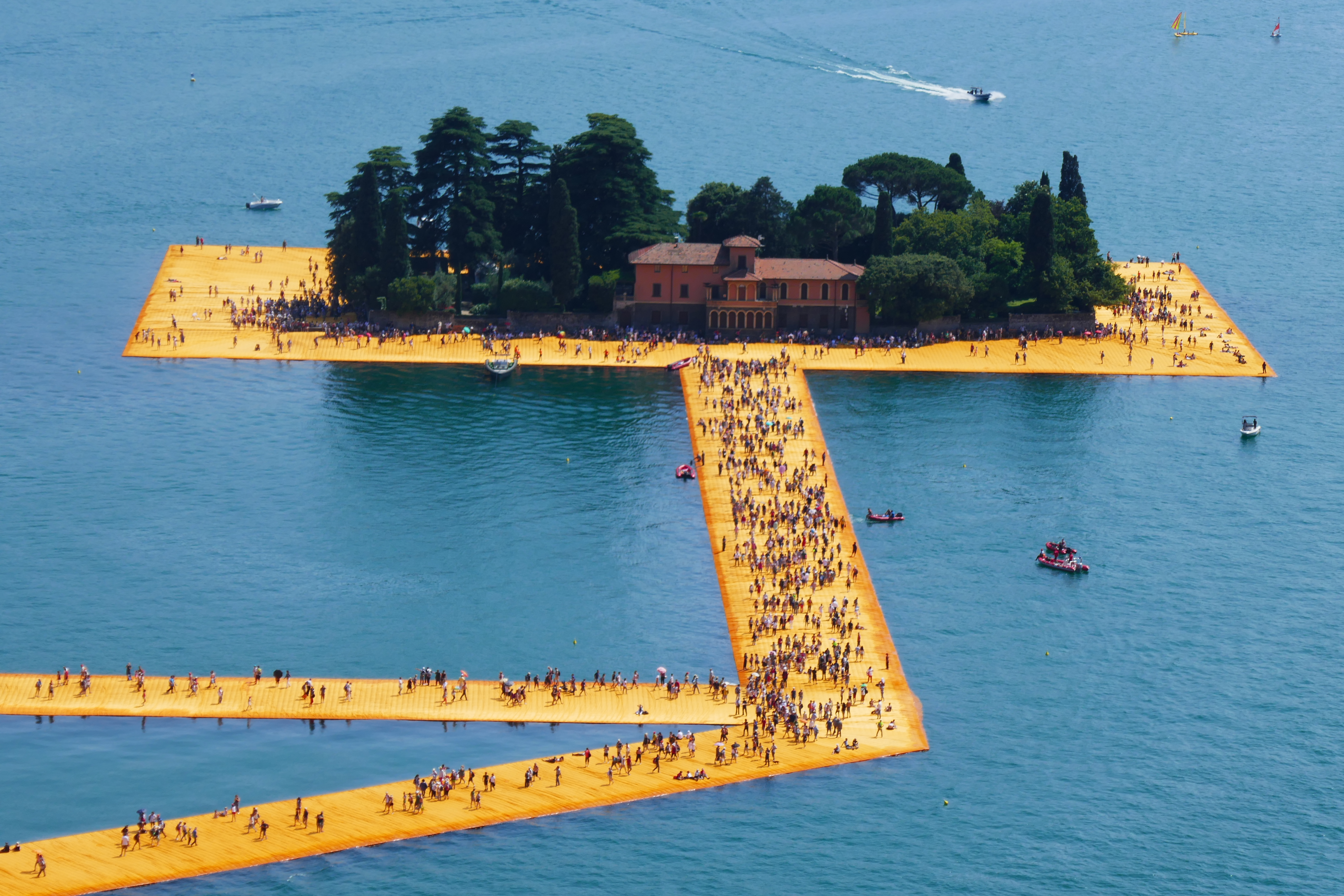 The Floating Piers at the island of San Paolo, by Christo and Jeanne-Claude, viewed from Rocca di Monte Isola, June 2016